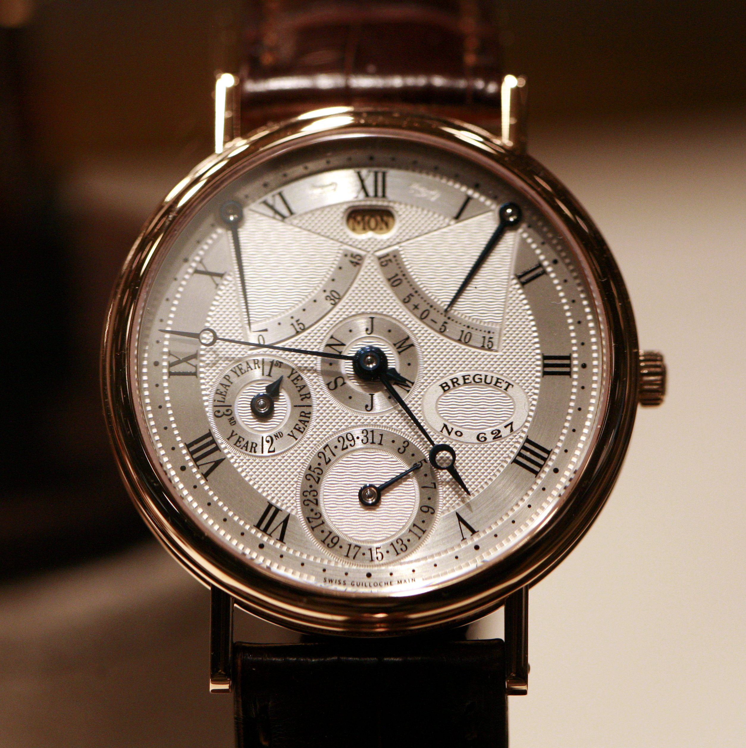 Breguet Ref. 3477 watch, showing Monday, May 5, 4:46, in the first year after a leap year. The top right gauge is at approximately -3.5. [unsure whether 4:46am or 4:46pm, or what the top two gauges mean] ((I'd wager Power reserve indicator on top left and Equation of time on the right))